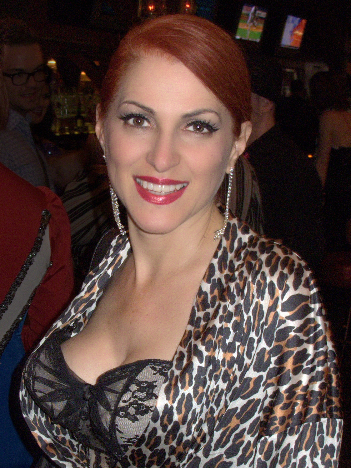 Jo Weldon at Miss Exotic World 2009.